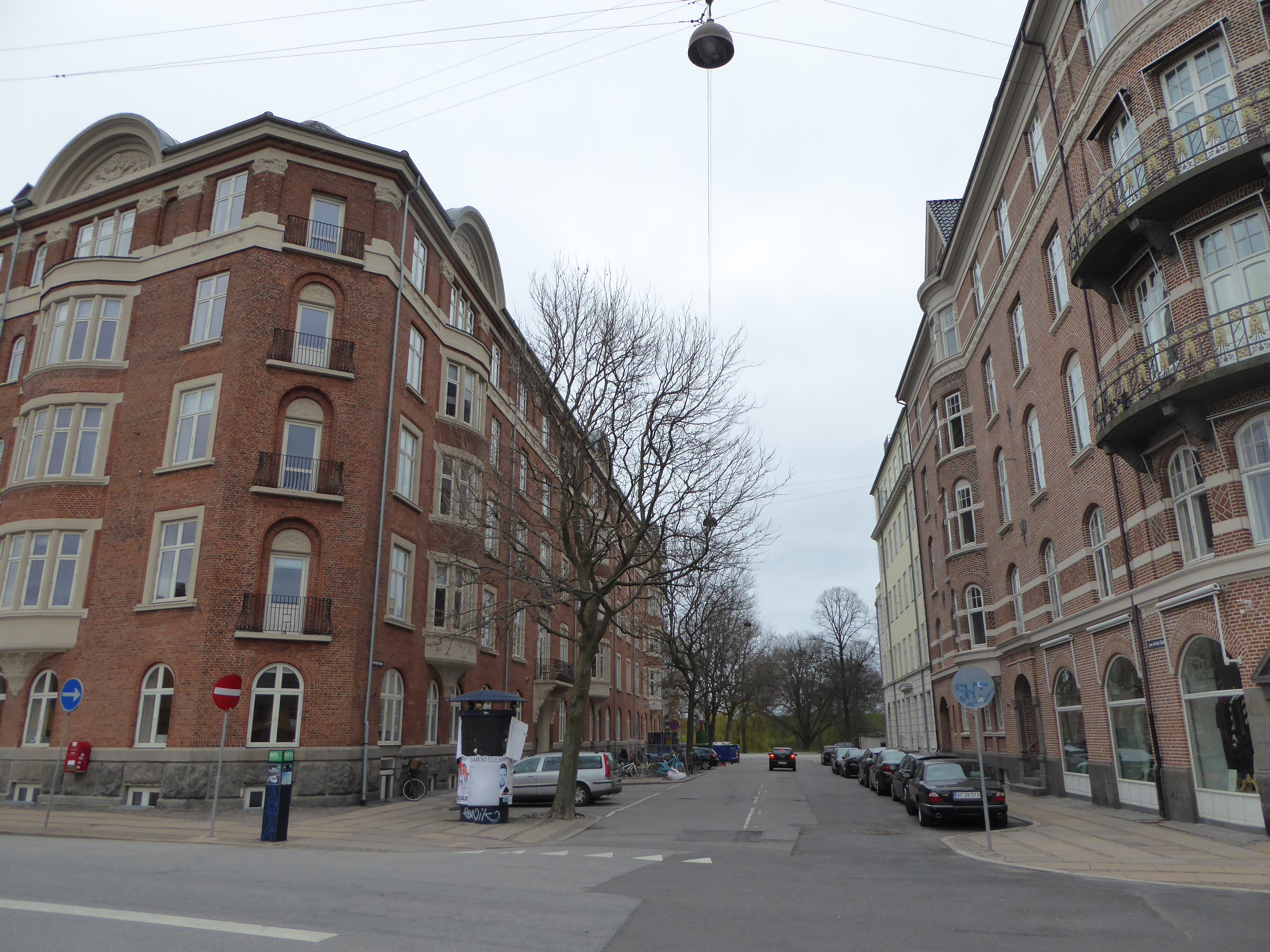 The street Jens Kofods Gade at Store Kongensgade in Indre By in Copenhagen.